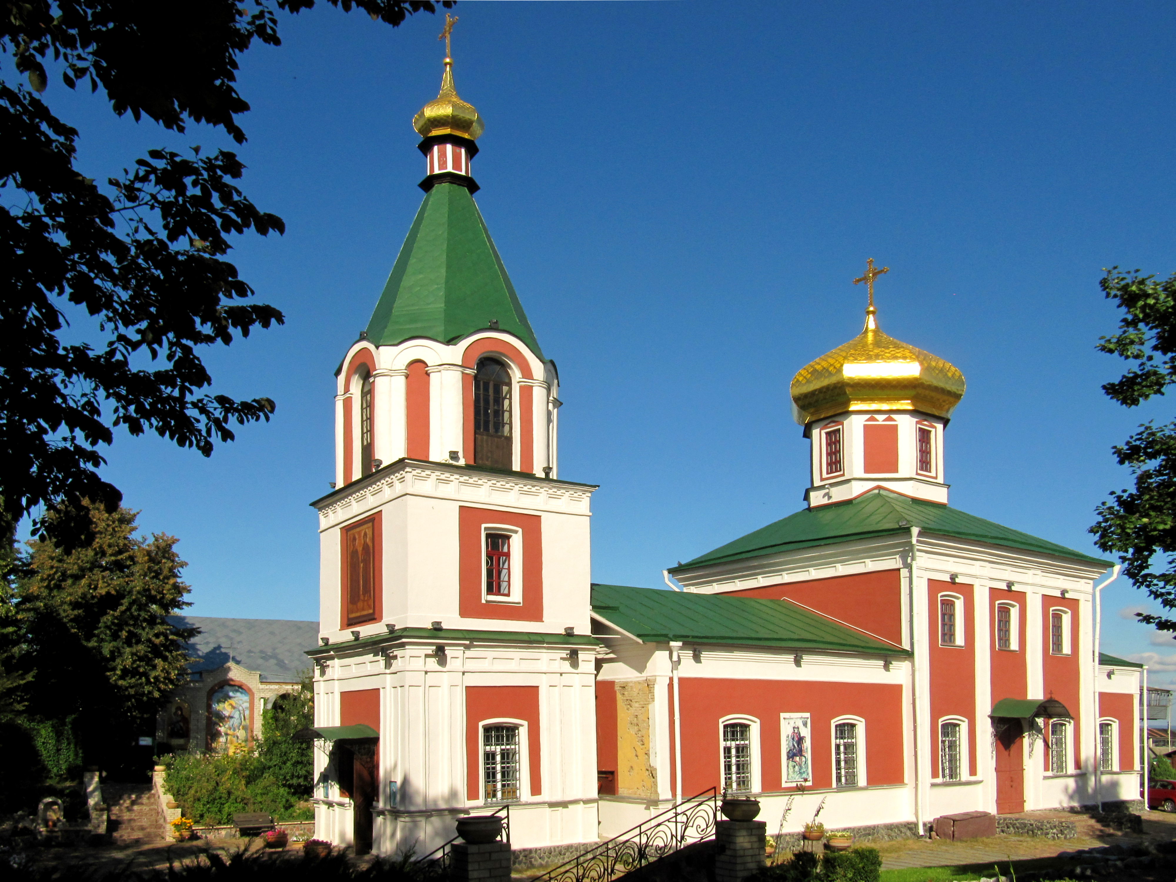 Ukraine, Vyshhorod. Church of Saints Borys and Hlib.